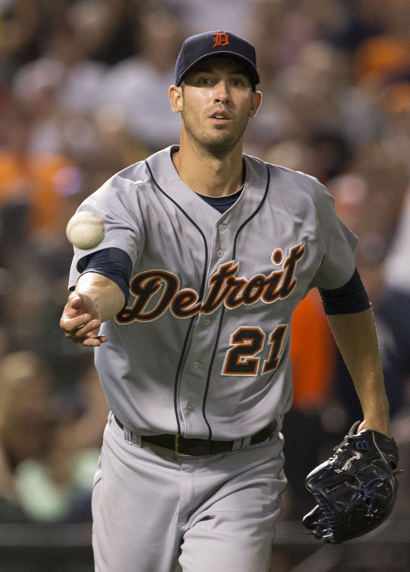 Detroit Tigers pitcher Rick Porcello throws the ball.